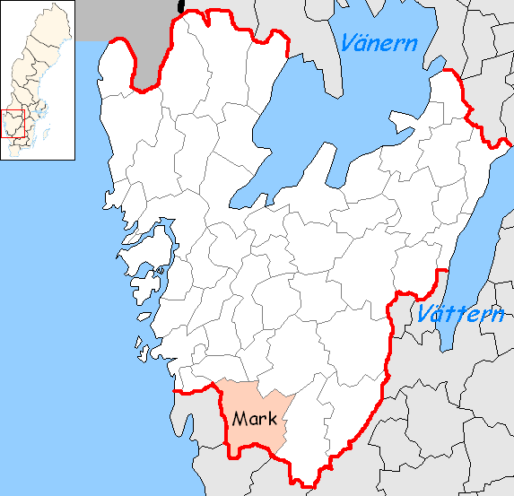 Mark Municipality in Västra Götaland County Designed by me. Mere outlines are a PD source from